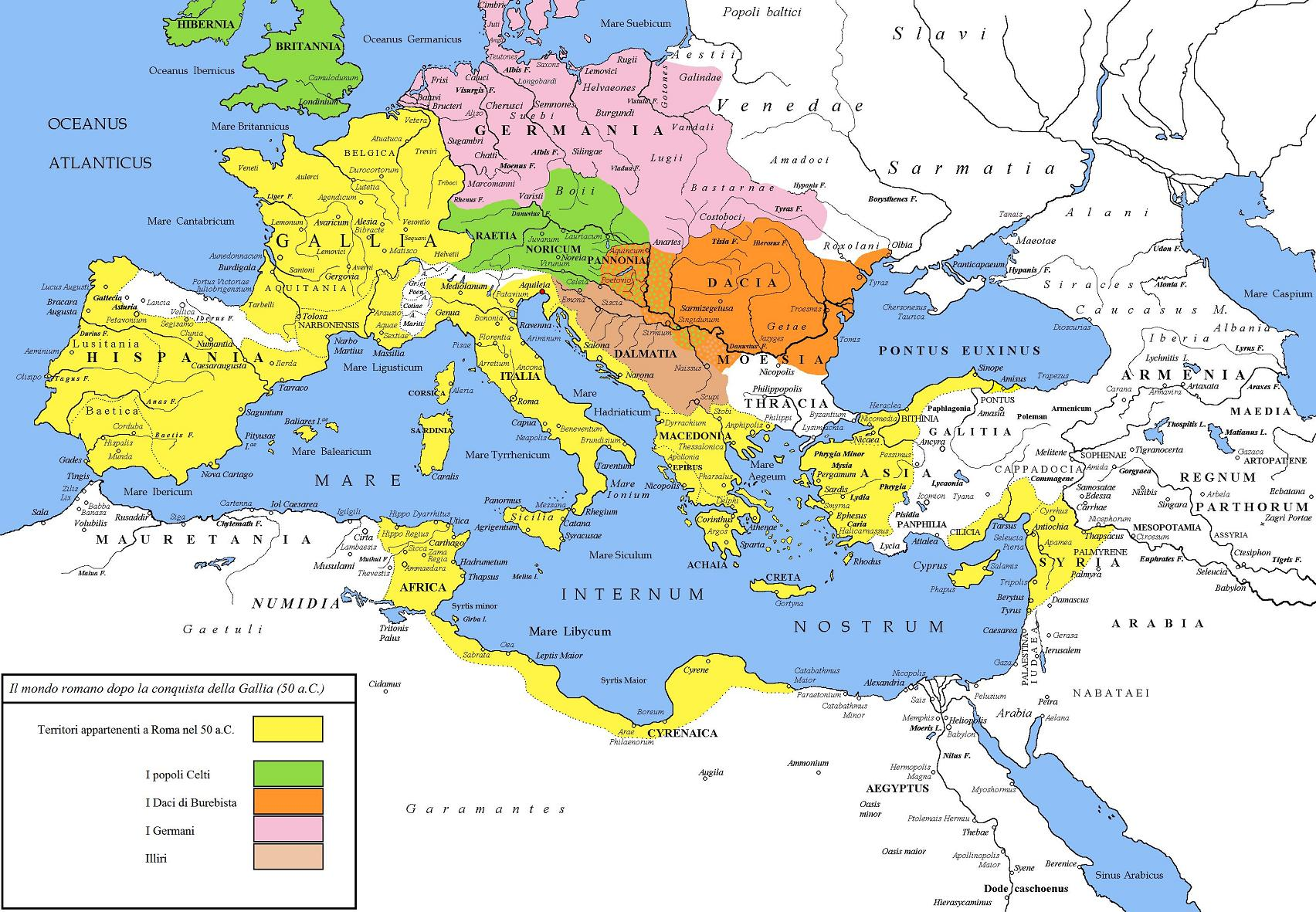 The roman world in 50 BC, after Caesar's Gallia conquest.